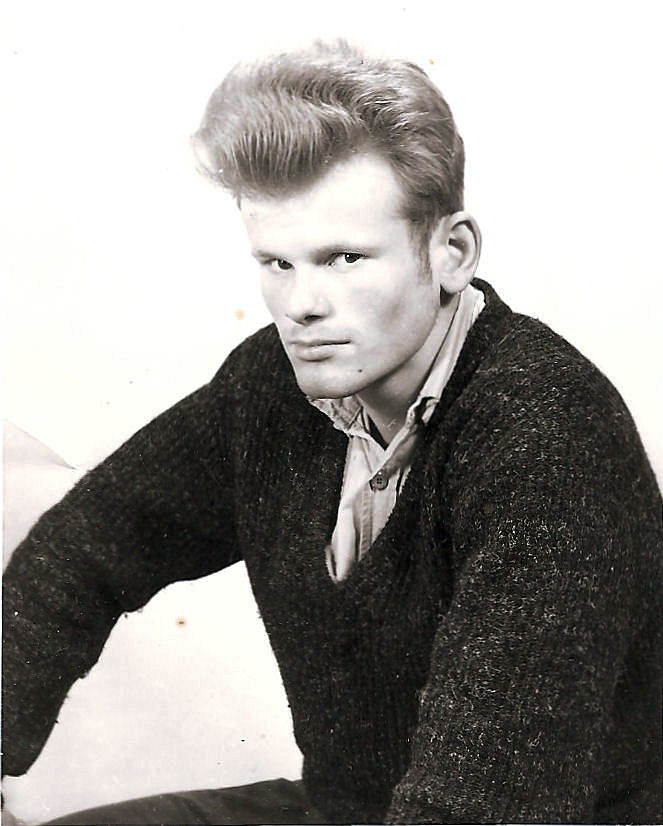 Fritz Moen, posing as James Dean, 1960.